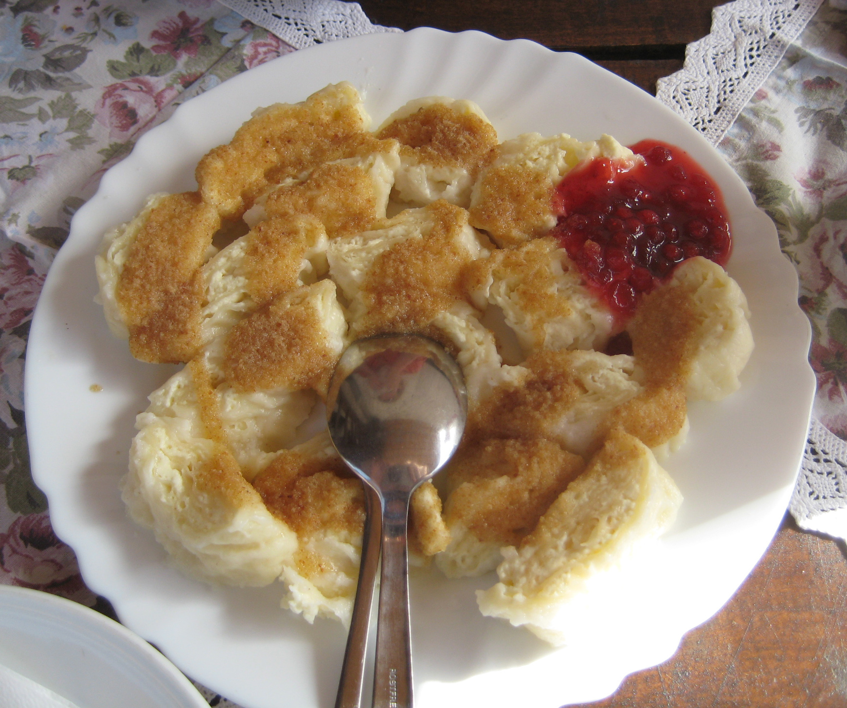 Sirovi štruklji (skutini); " cheese-"dumplings" ", slovenian food